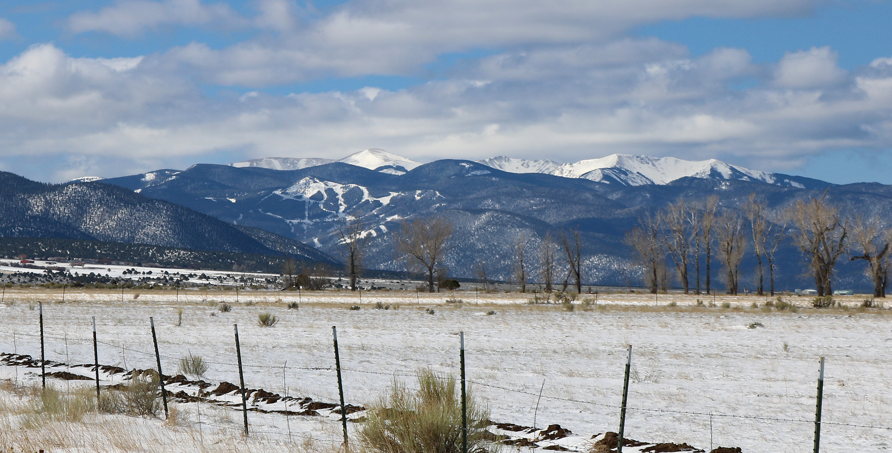 A view of Latir Peak and nearby mountains in northern New Mexico. The old Rio Costilla ski resort can also be seen. The view is from County Road 21, south of San Luis, Colorado.